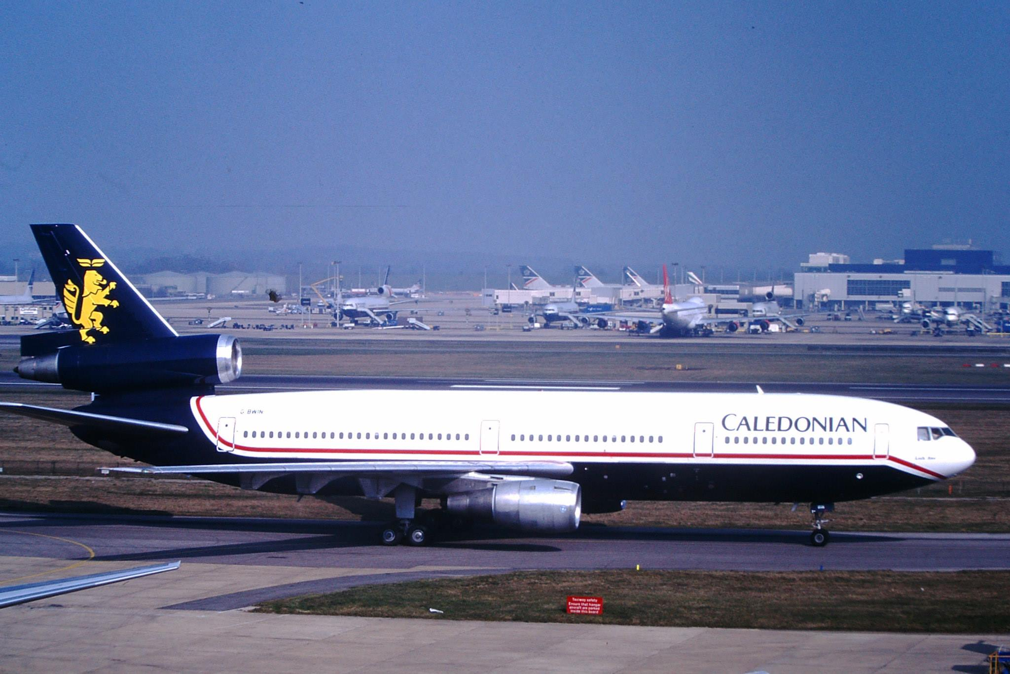 Caledonian DC10